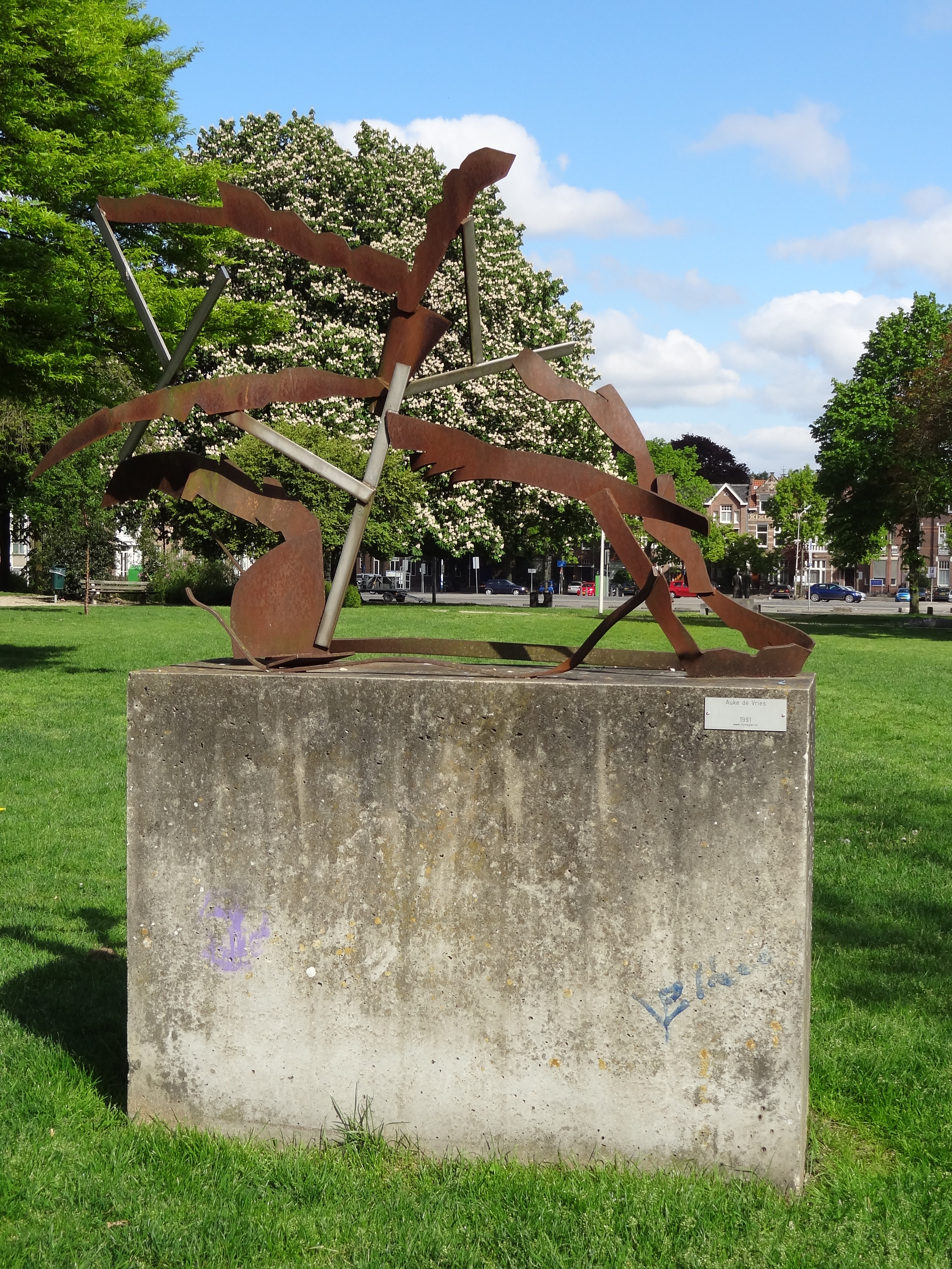 Sculpture created by Auke de Vries in the Julianapark in Nijmegen, The Netherlands